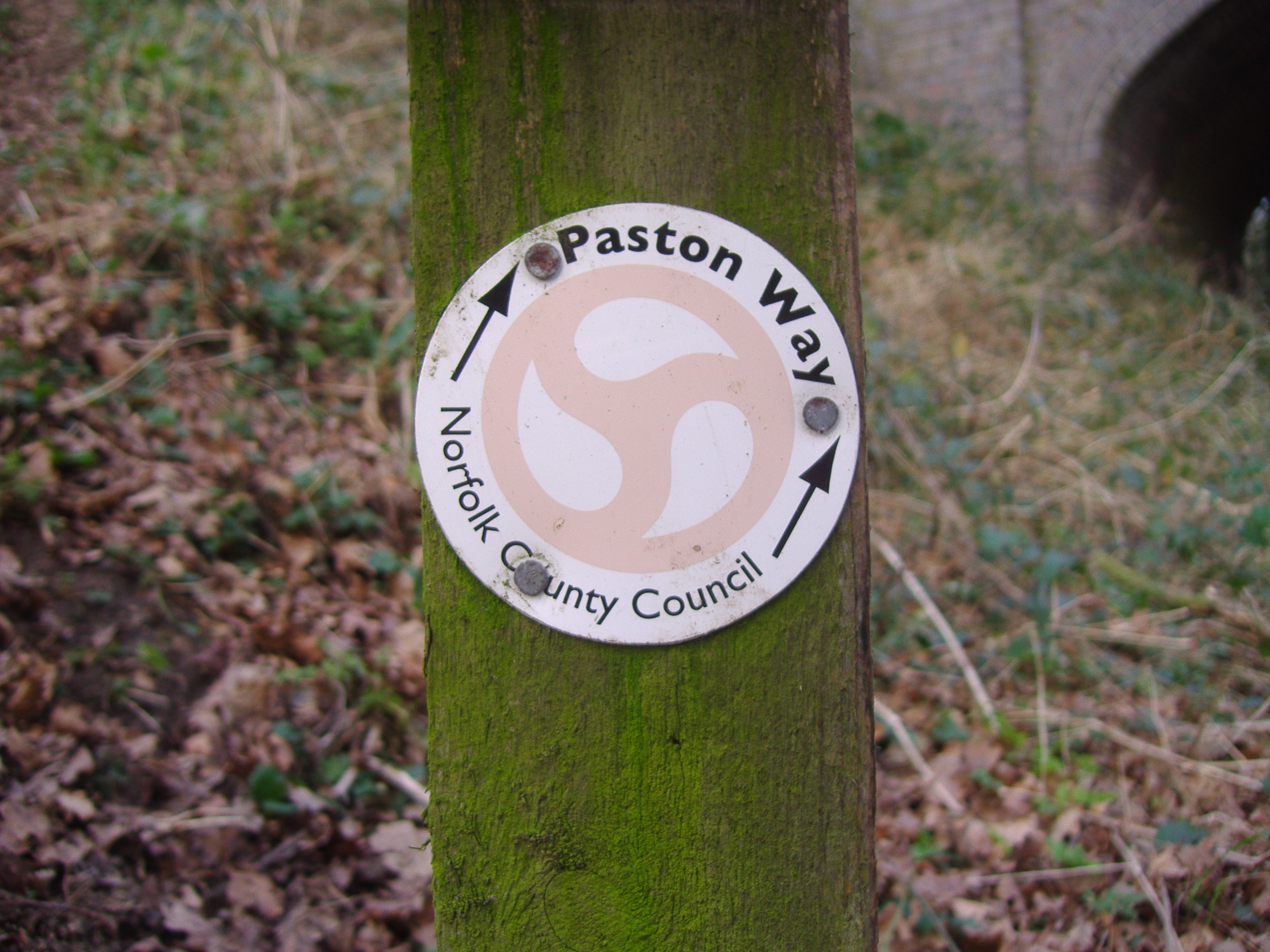 A Digital photograph of the route marker for the Paston Way takenon the 27 Jan 2008 by Stavros1 (talk) 11:22, 29 January 2008 (UTC)